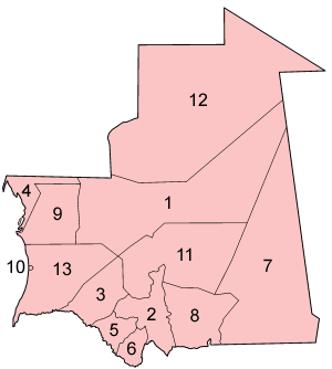 Map of the regions of Mauritania, numbered in English alphabetical order. Adrar Assaba Brakna Dakhlet Nouadhibou Gorgol Guidimaka Hodh ech Chargui Hodh el Gharbi Inchiri Nouakchott (capital district) Tagant Tiris Zemmour Trarza